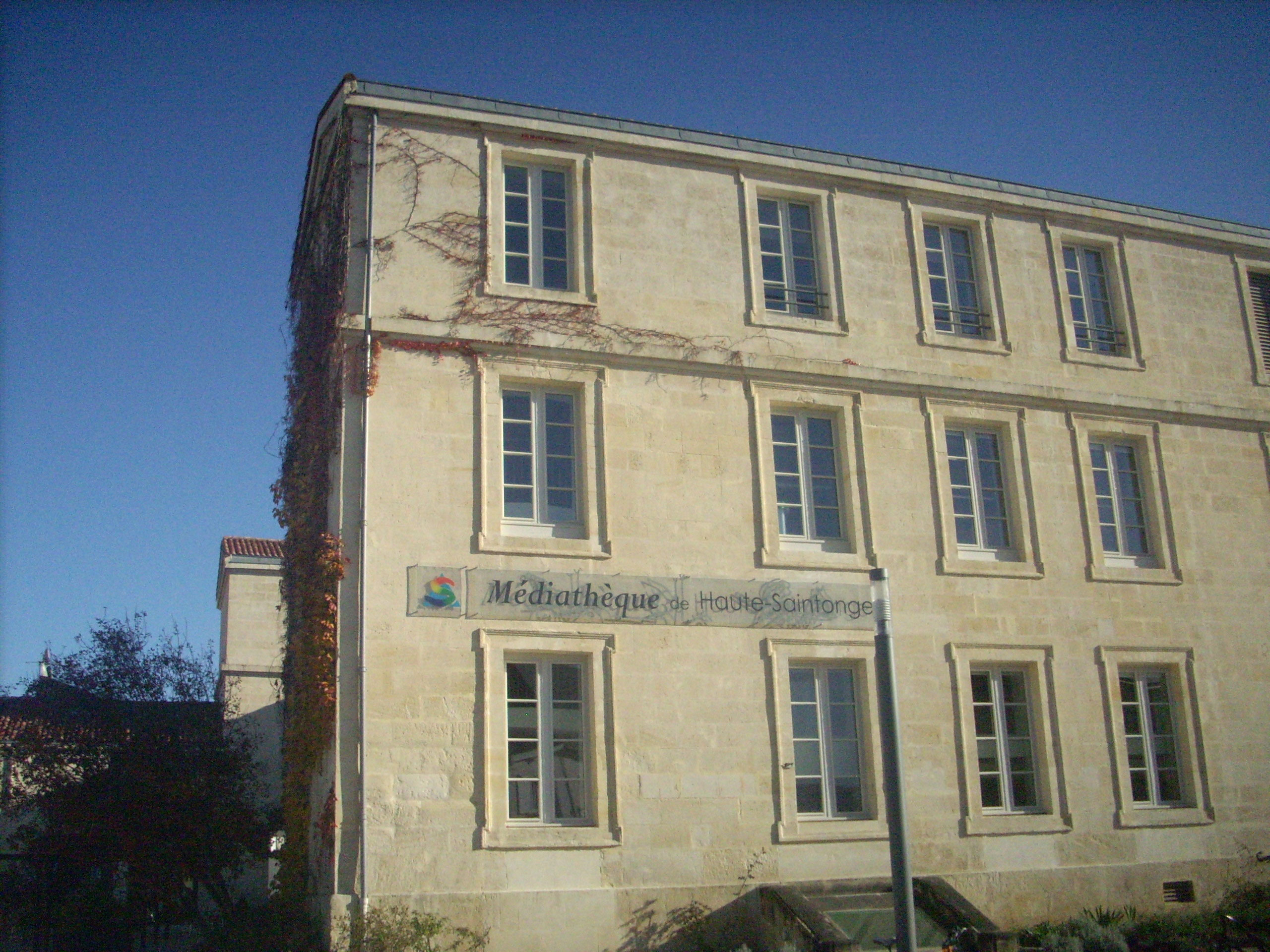 multimedia library in Jonzac, France